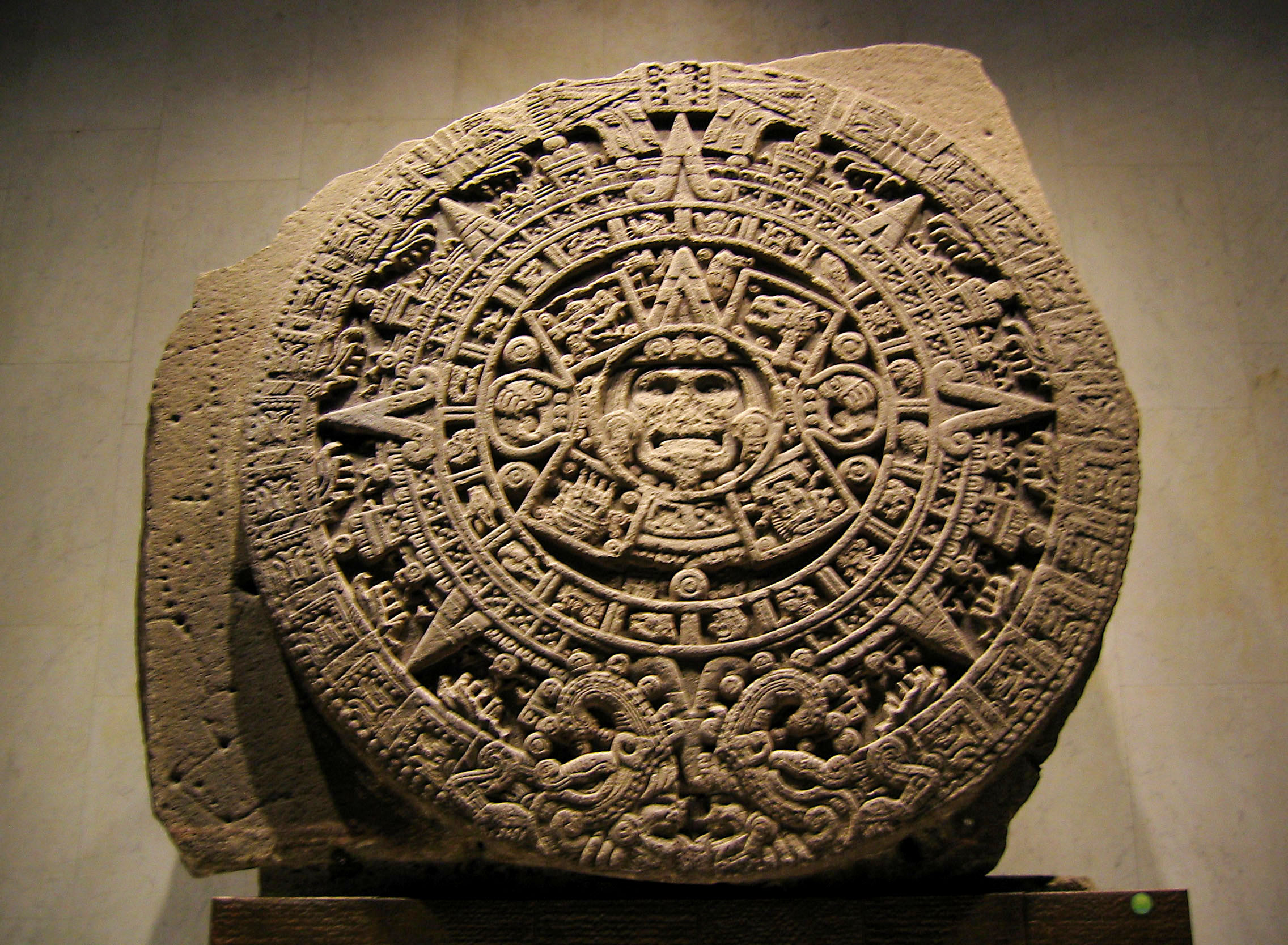 The Aztec "Calendar Stone". Museo Nacional de Antropología, Mexico City.